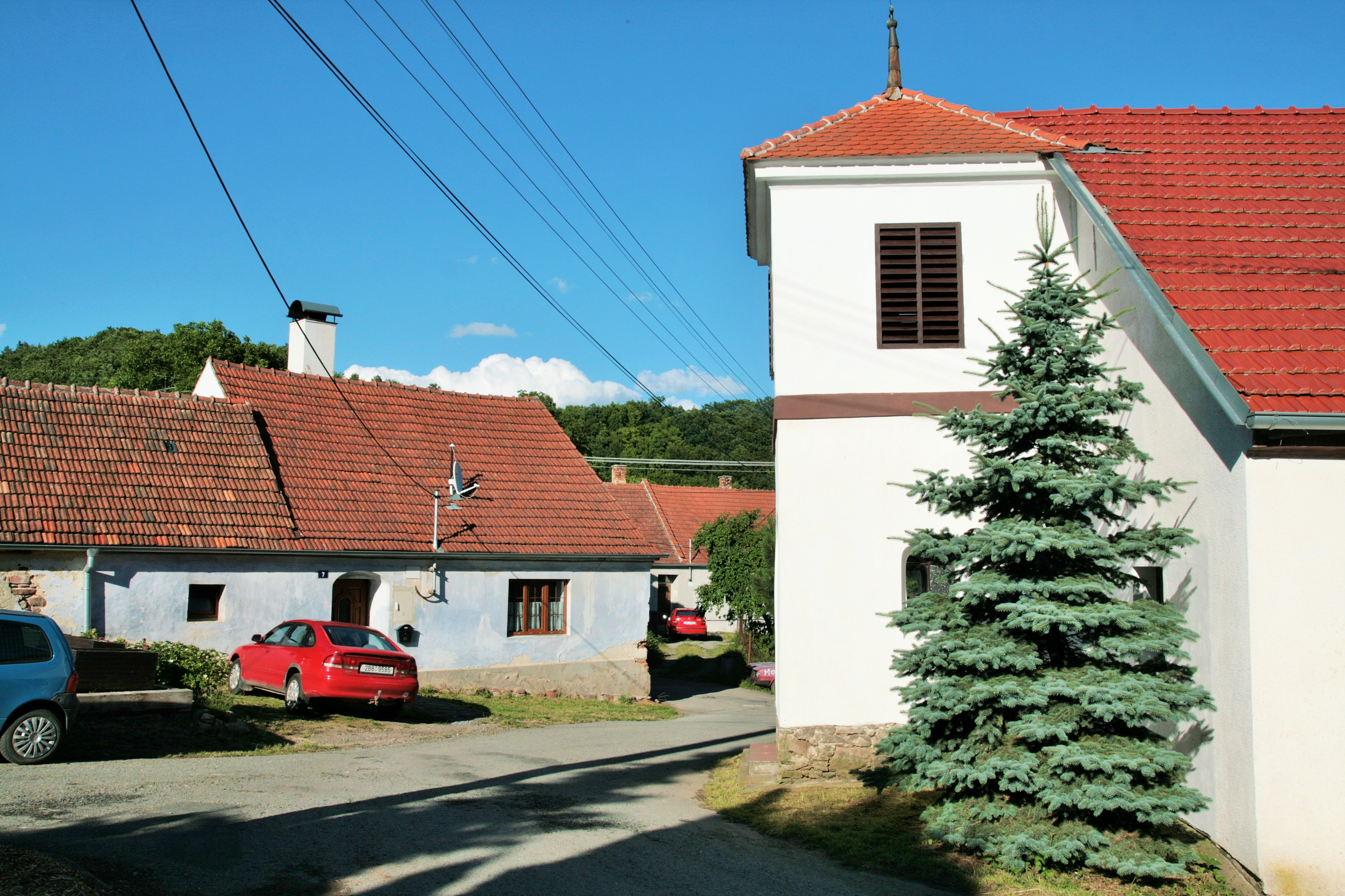 Jamné, part of Tišnov town, Brno-Country District, Czech Republic. Bell tower at the village green.